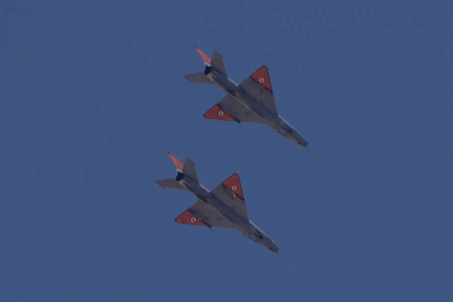 Two egyptian F-7 "Fishbed" in flight over Hurghada.